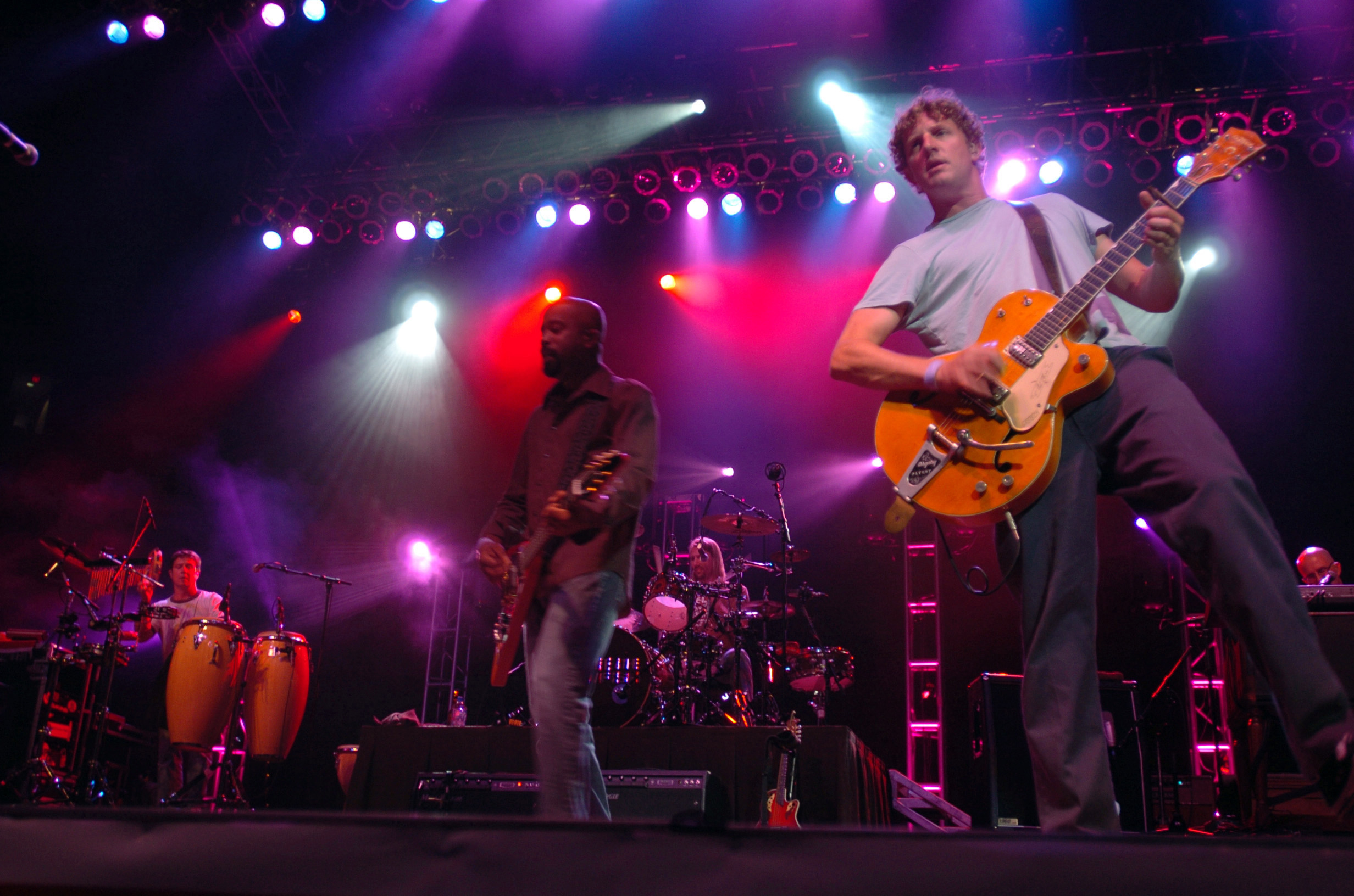 Hootie and the Blowfish perform for North Carolina Army National Guard (NCARNG) Soldiers and their family members during the NCARNG 30th Brigade Combat Team (BCT) Welcome Home Celebration Day at the RBC Center, Raleigh, N.C., on June 26, 2005. The 30th BCT was deployed during most of 2004 in Iraq in support of Operation Iraqi Freedom.